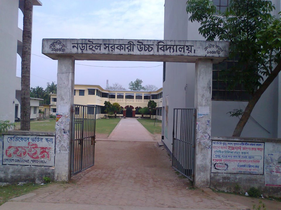 School Main Gate